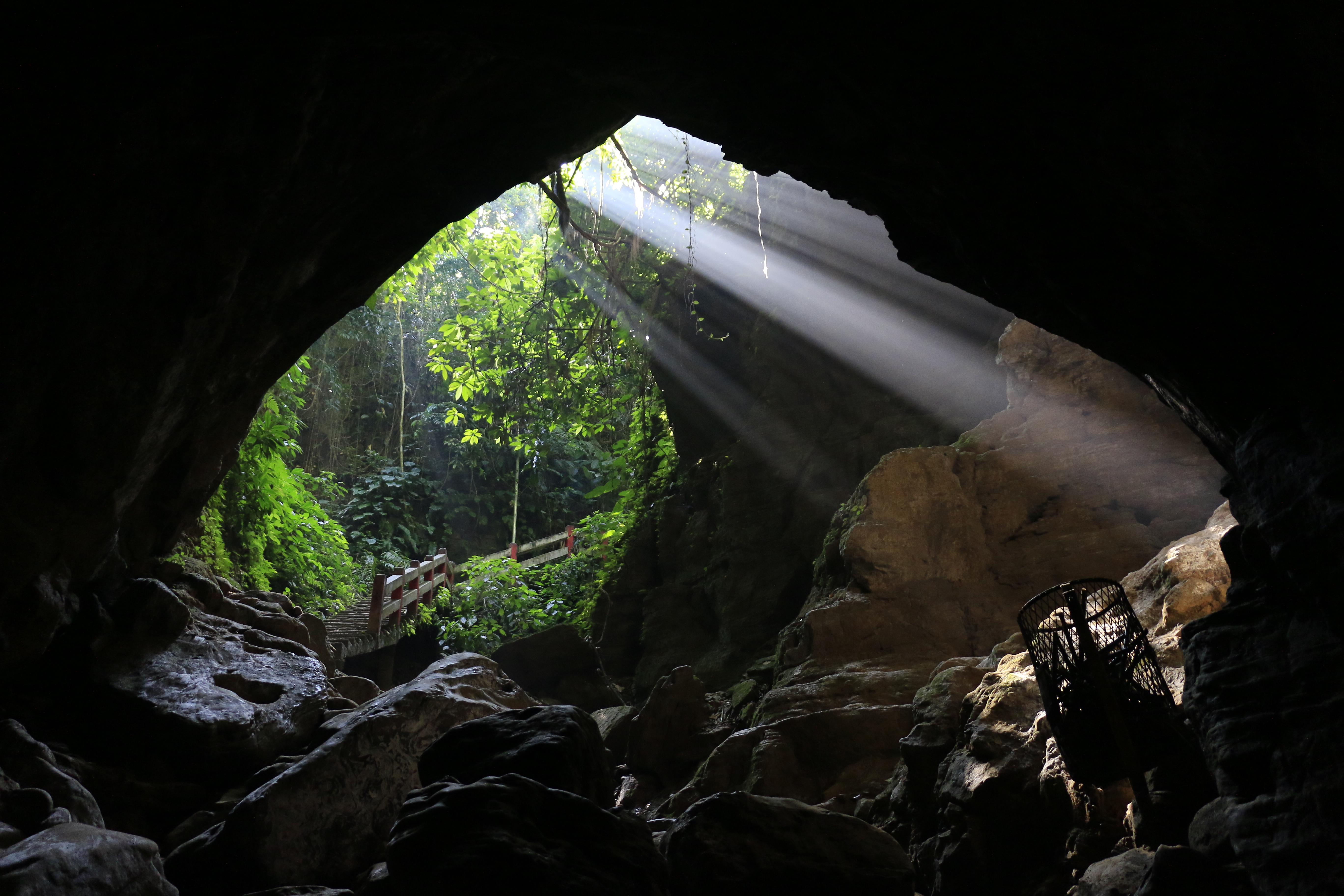 Entrance, Alutila Cave, also called Alutila Mysterious Cave is a natural cave located in Matiranga Upazila, Khagrachari, Bangladesh. It's a horrible and mysterious cave and this cave 150 meters long and very attractive tourist spot in the country.